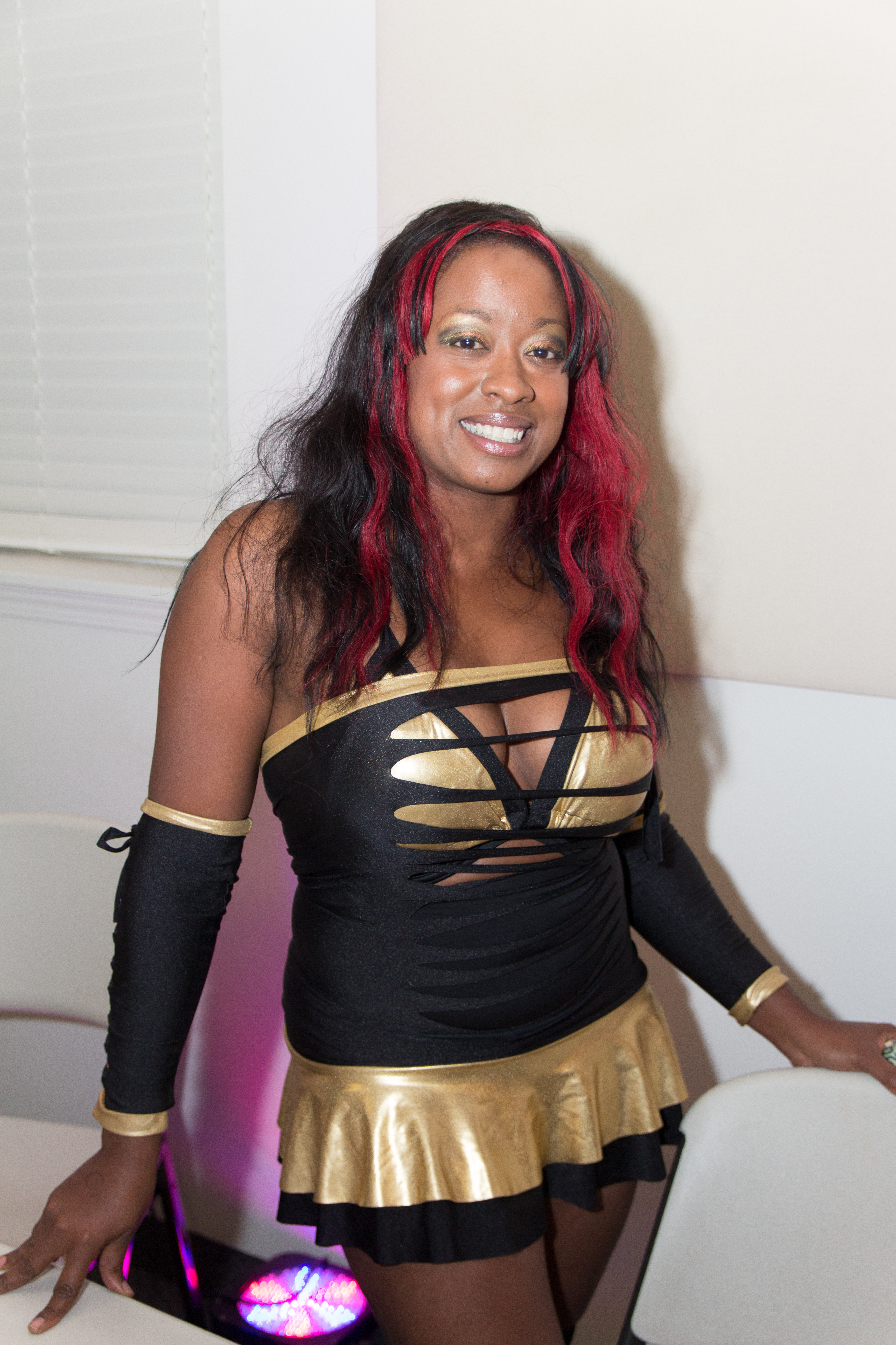 Female Wrestler Sojo Bolt (real name Josette Bynum) at an Xtreme Bombshells of Wrestling show in Port Huron, MI